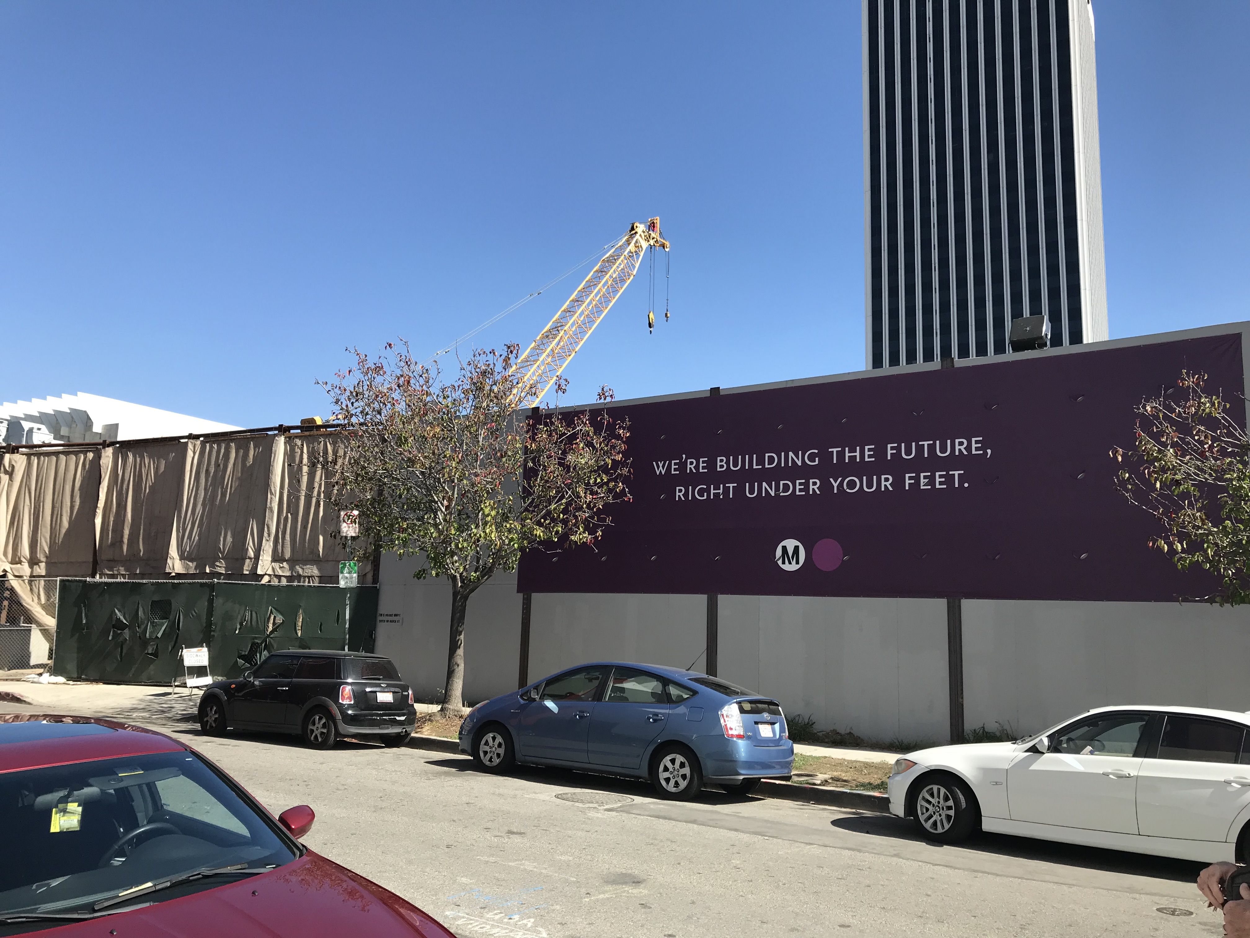 The Wilshire/Fairfax Metro station, currently under construction